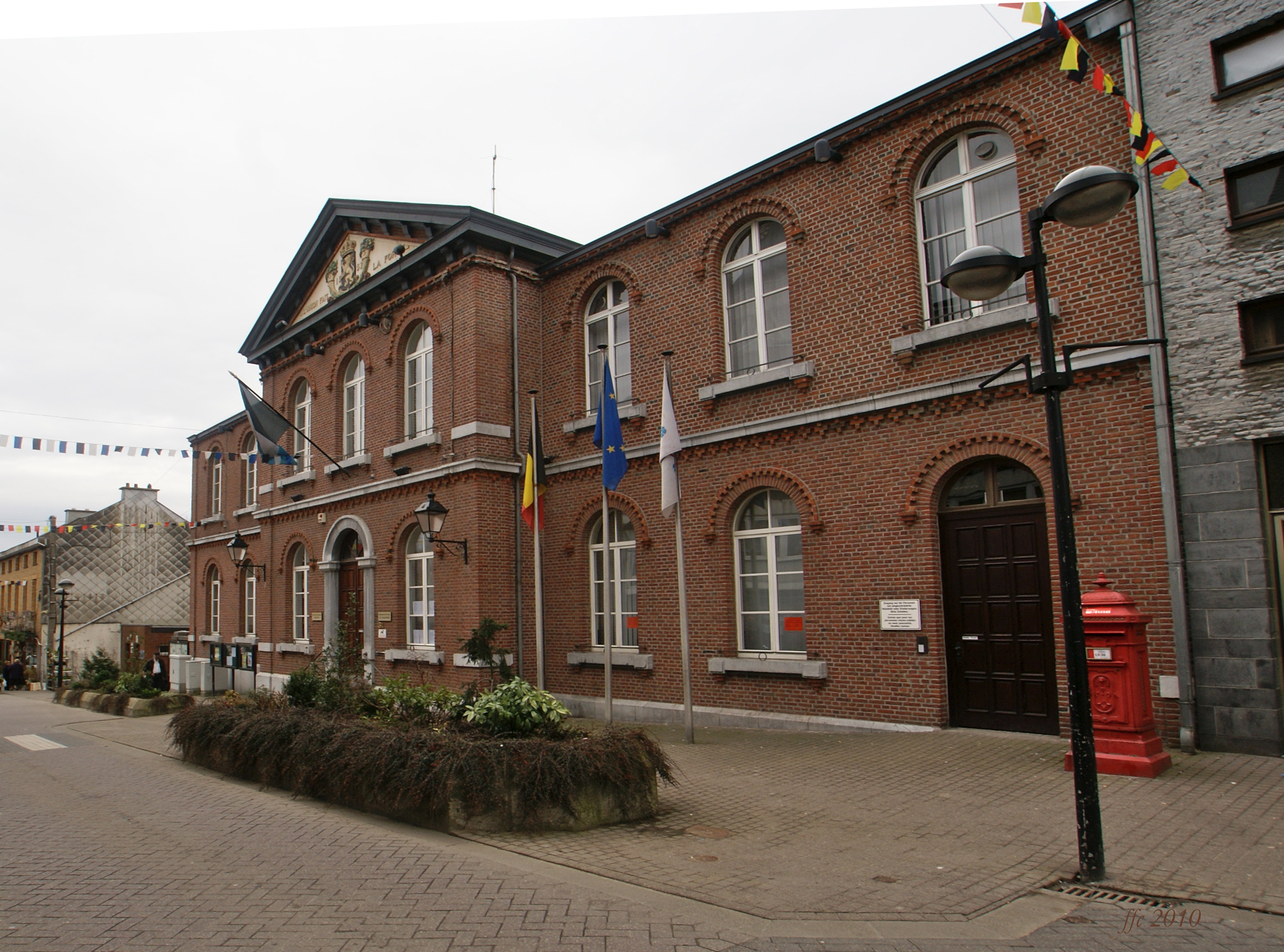 Kelmis (Belgium): Town Hall